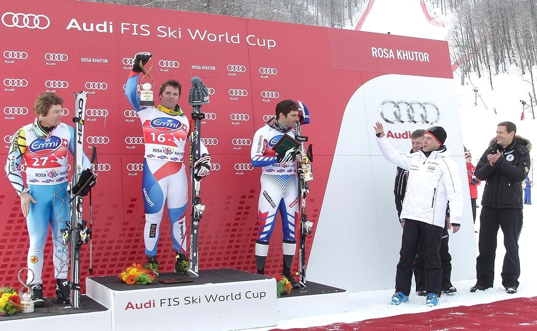 Podium downhill of World Cup in Sochi, Rosa Khutor, february 2012